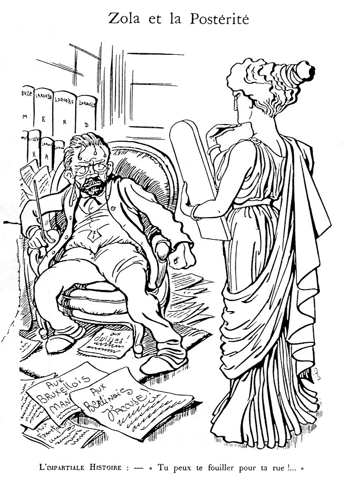 Cartoon published after J'accuse...! of Zola. Its title is : "Zola et la postérité" (Zola and the posterity). It represents Zola, cornered by the allegory of History ("L'Impartiale Histoire" : The Impartial History), who says : "Tu peux te fouiller pour ta rue !..." (You can whistle for your street !...)